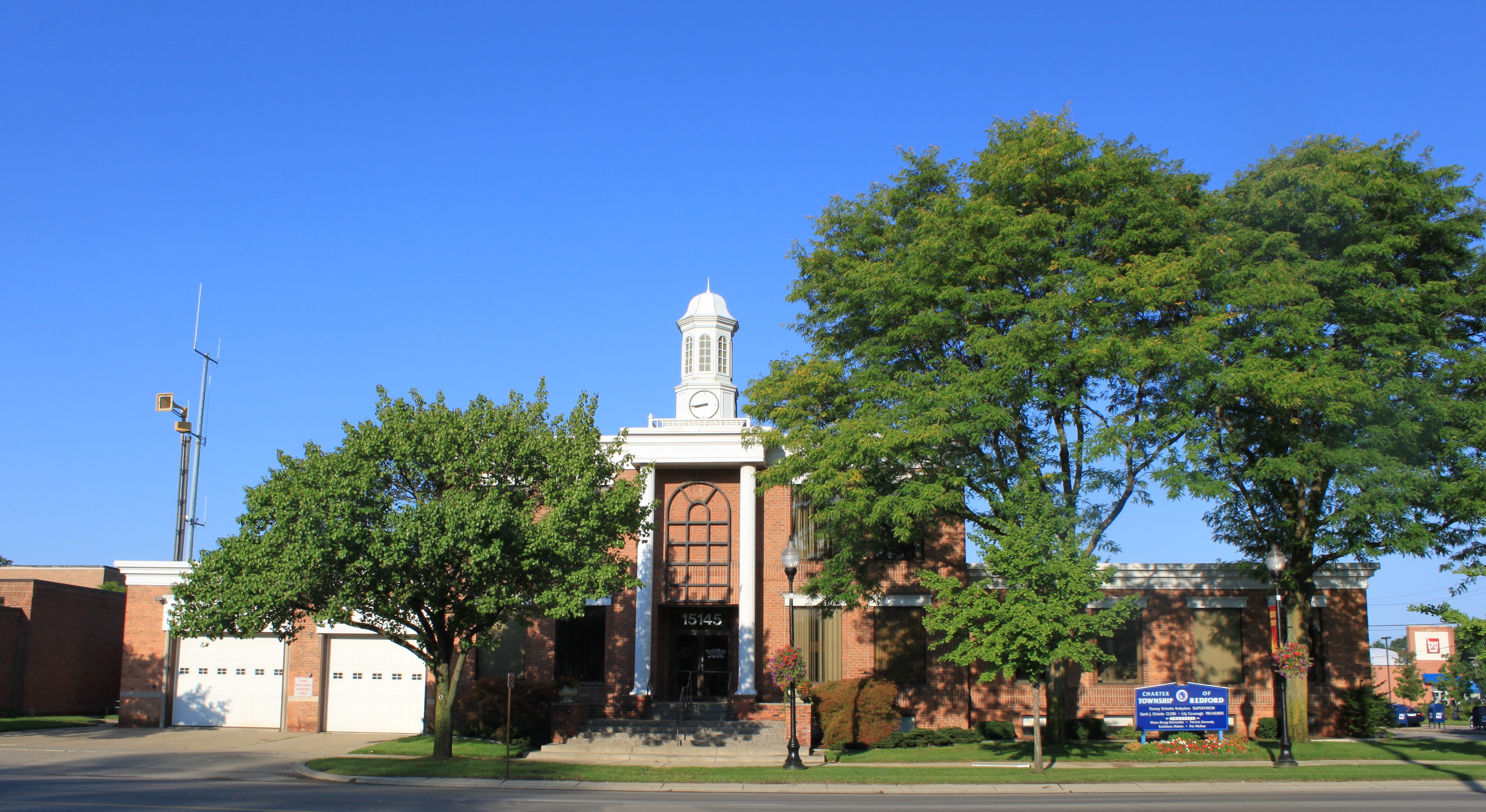 Redford Township Hall, 15145 Beech Daly Road, Redford Township, Michigan.